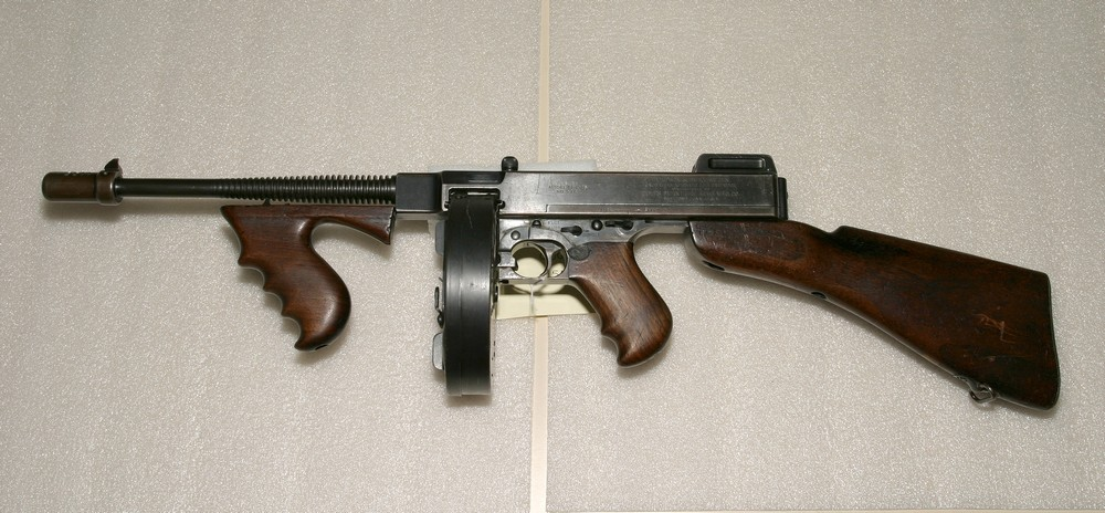 THOMPSON SUBMACHINE GUN, MODEL 1928, SER.NO. 5768, CAL.45 ACP; DEACTIVATED